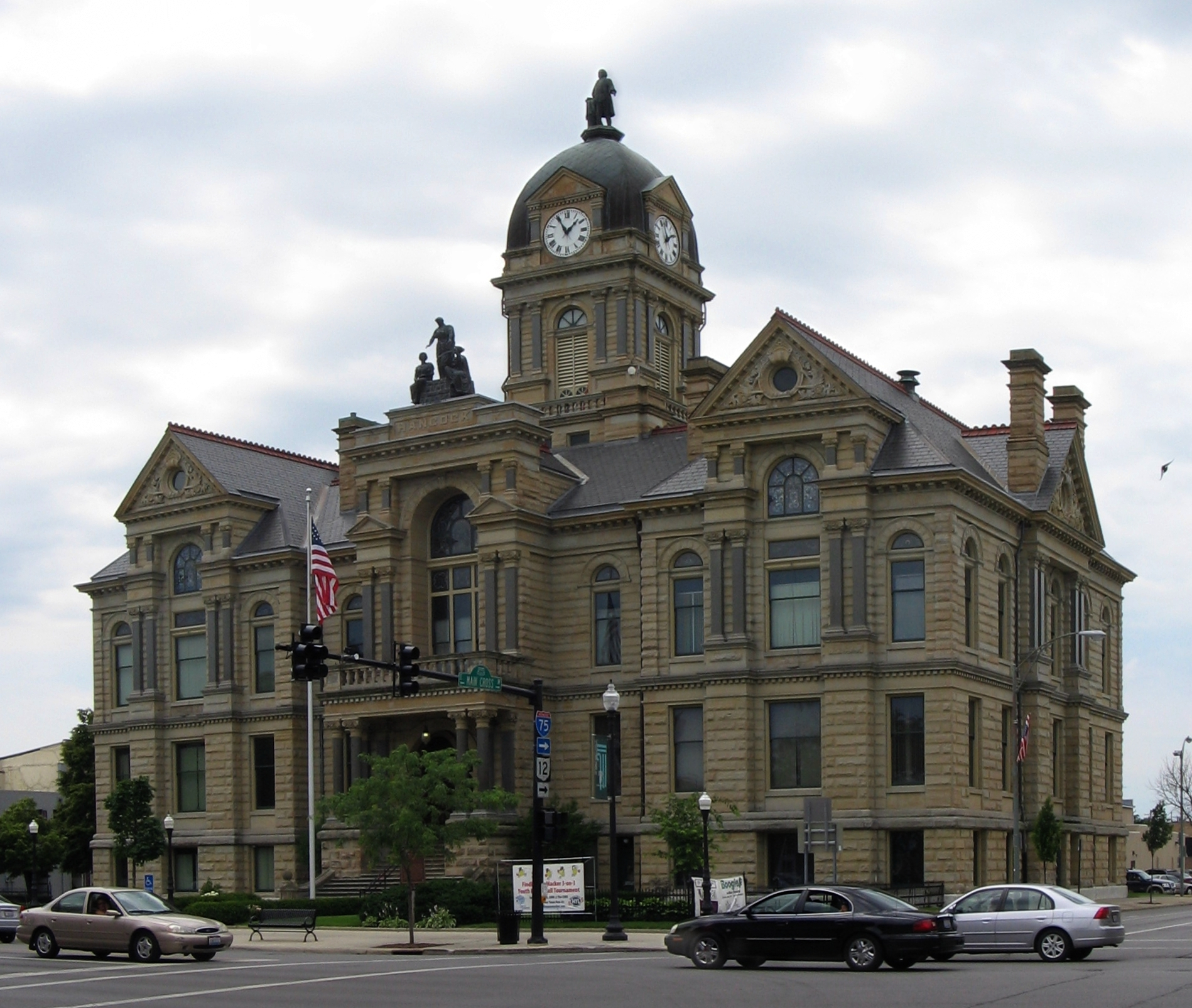 Front of the Hancock County Courthouse, located at the intersection of Main and Main Cross Streets in downtown Findlay, Ohio, United States. Built in 1885, the courthouse is listed on the National Register of Historic Places.